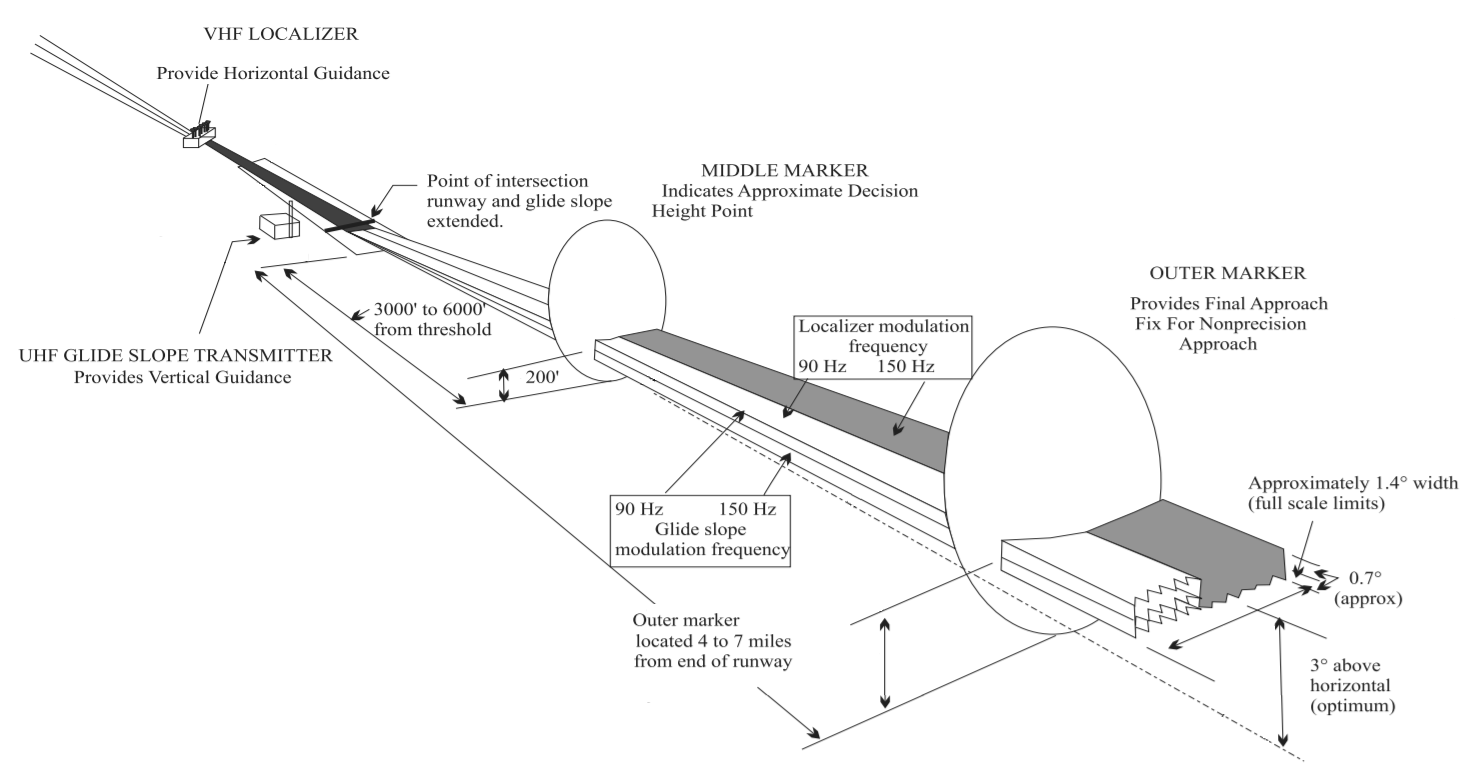 FAA Instrument Landing Systems